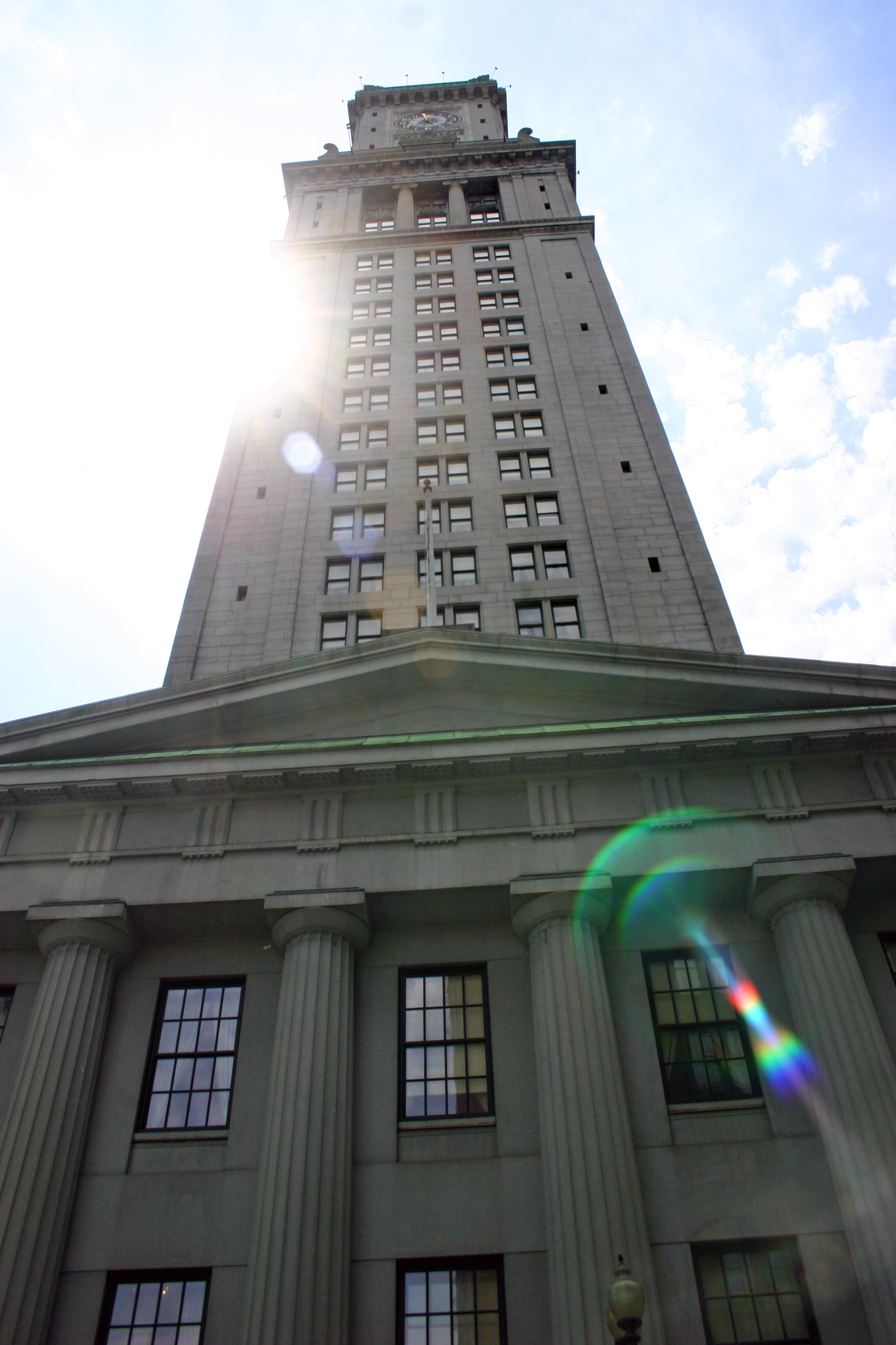 View of Boston's Custom House Tower, resting above the original 1849 Custom House